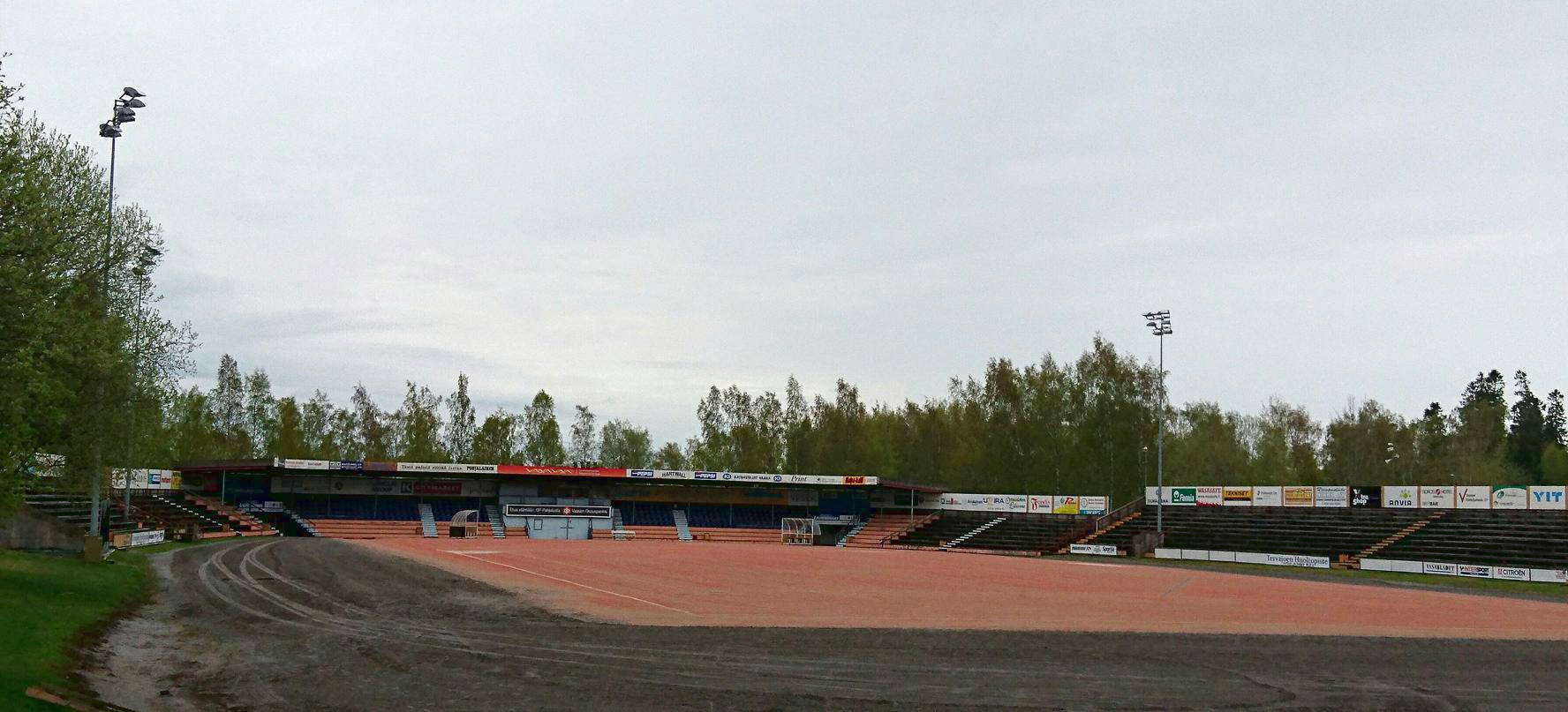 Hietalahti finnish baseball venue in Vaasa, Finland.